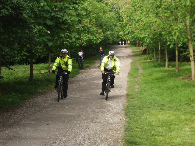 Park police on bikes, Holland Park These park police seemed to be enjoying themselves as they rushed down the hill on their bicycles.